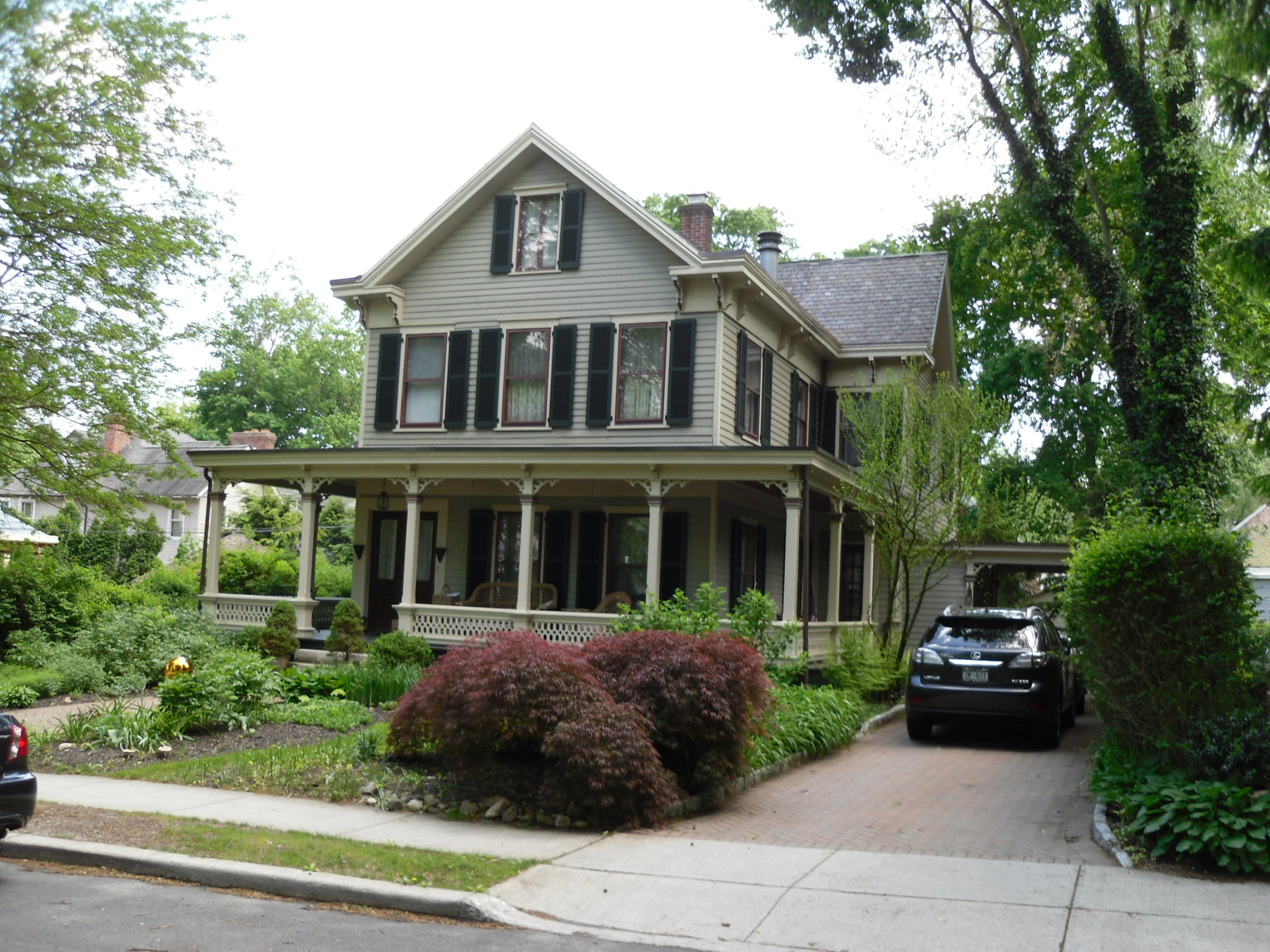 A house in the Katonah Village Historic District